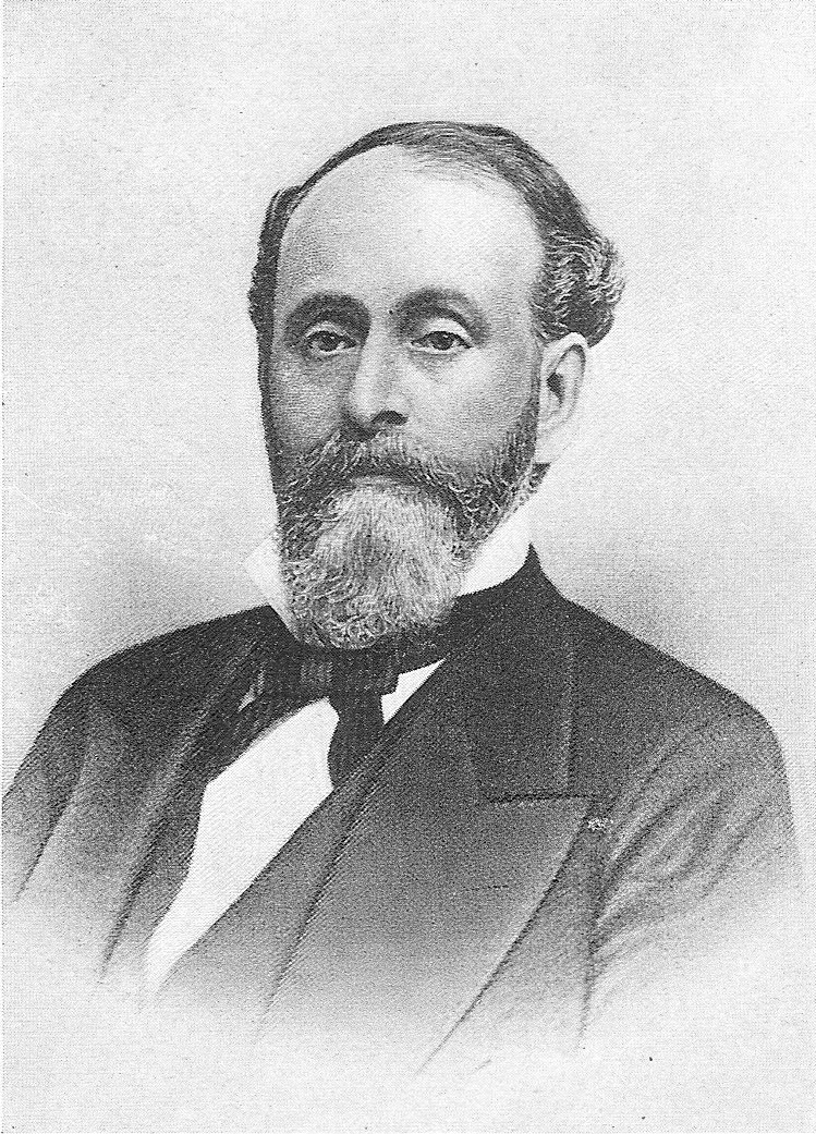 Photograph of Ebenezer O. Grosvenor